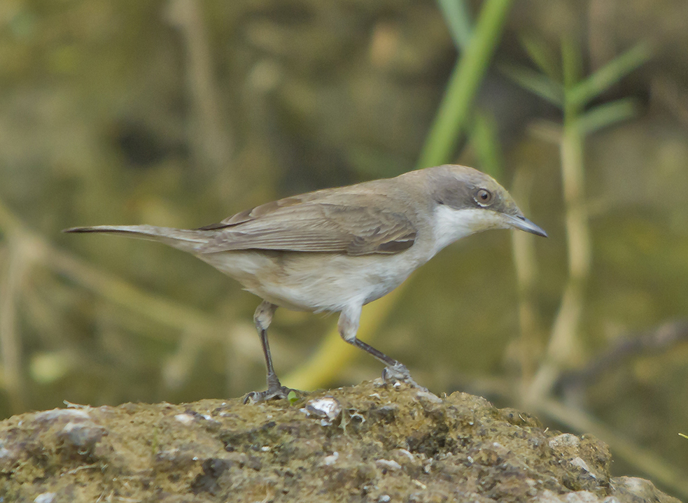 Drinking water